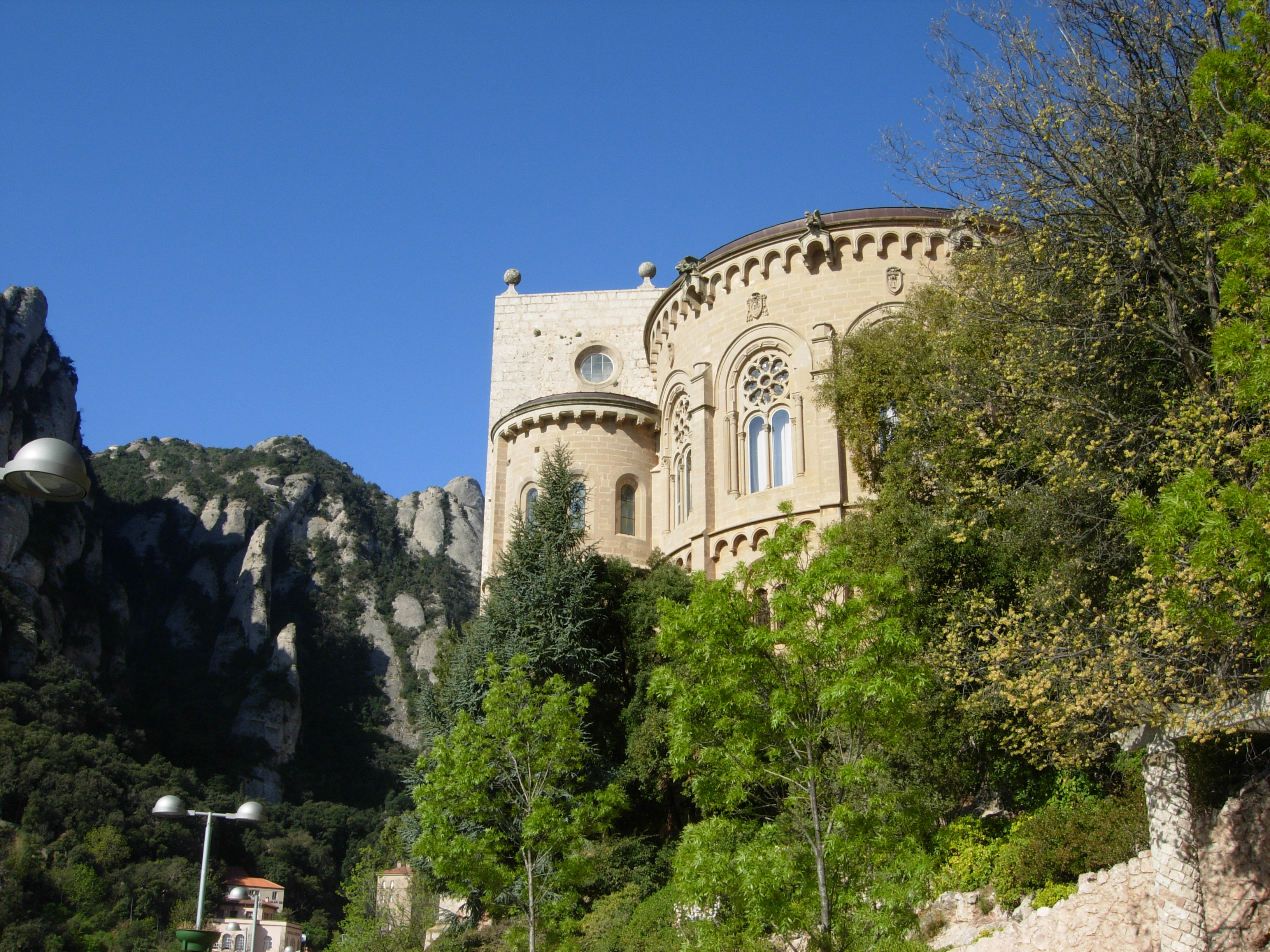 Outside view of the abbey Santa Maria de Montserrat in Catalonia.